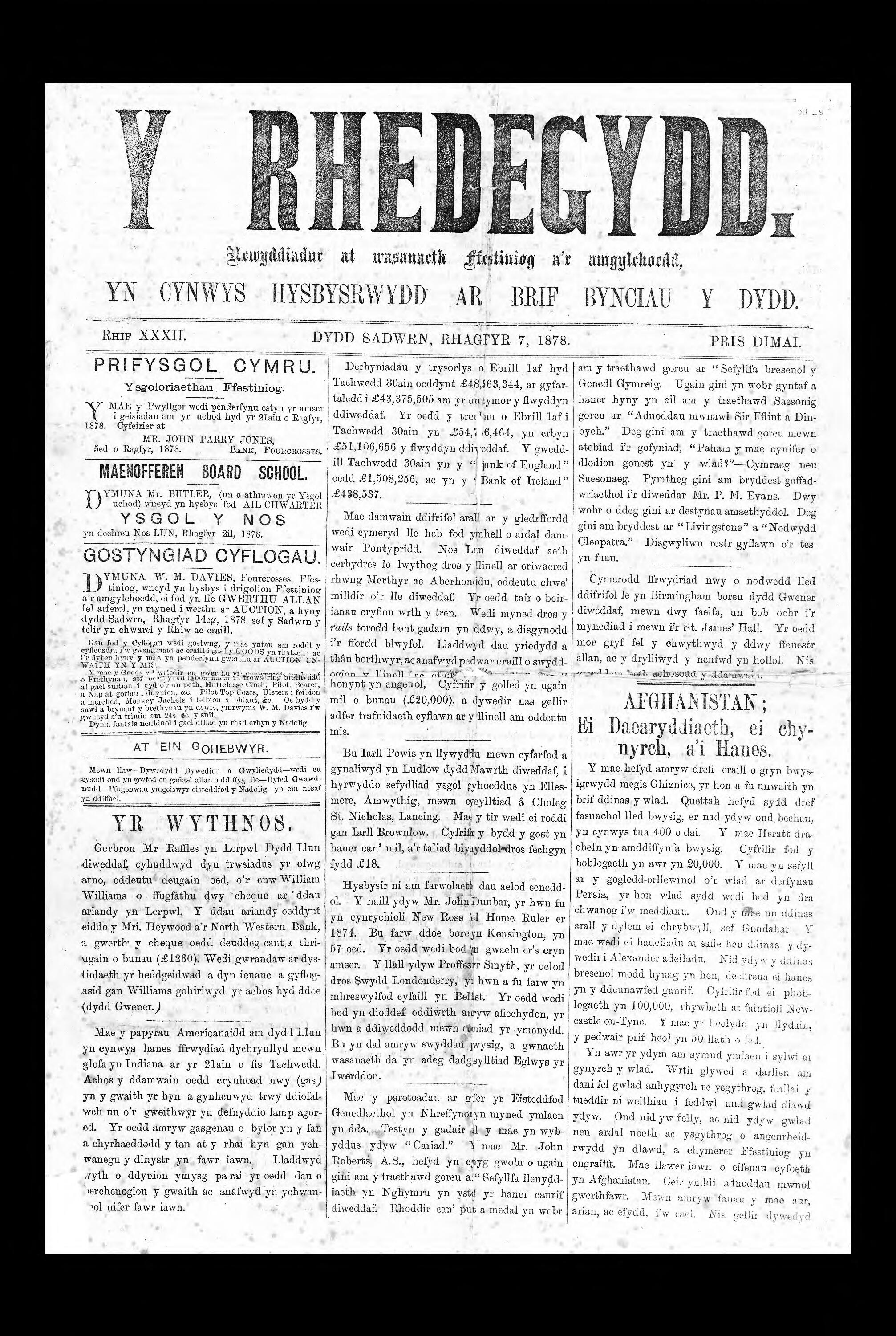 Front page of the earliest surviving copy of the Welsh newspaper Y RhedegyddCymraeg: Tudalen flaen y copi cynharaf sydd yn bodoli o'r papur newydd Cymraeg Y Rhedegydd